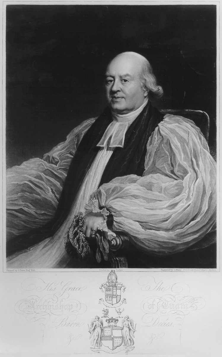 William Beresford, 1st Baron Decies (1743-1819), Archbishop of Tuam